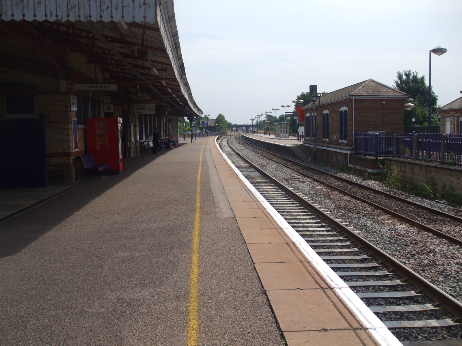 West Drayton station slow platform looking east (fast platforms on the extreme right, alternative slow eastbound platform to the left out of shot).